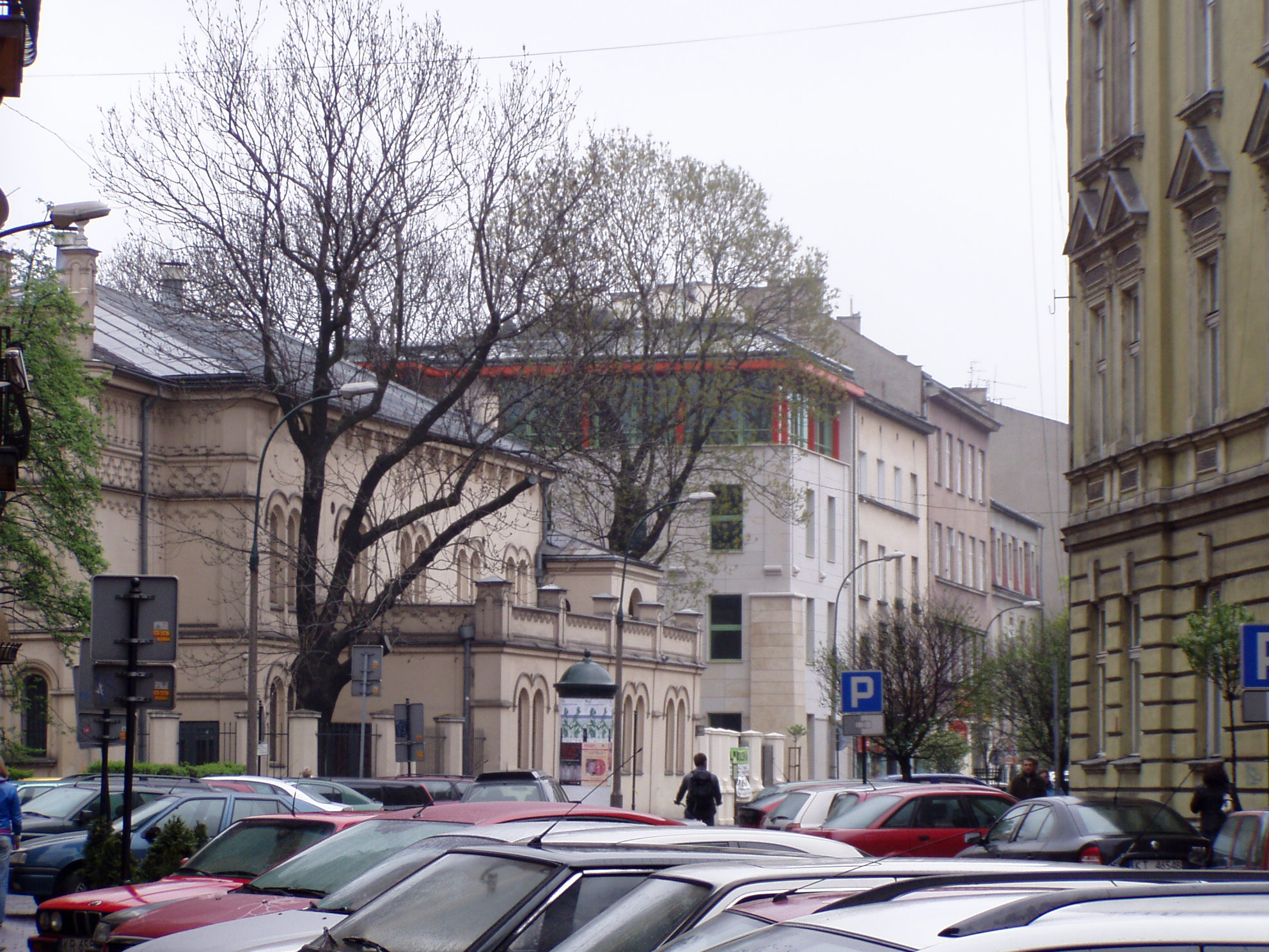 Jewish Community Centre in Kraków